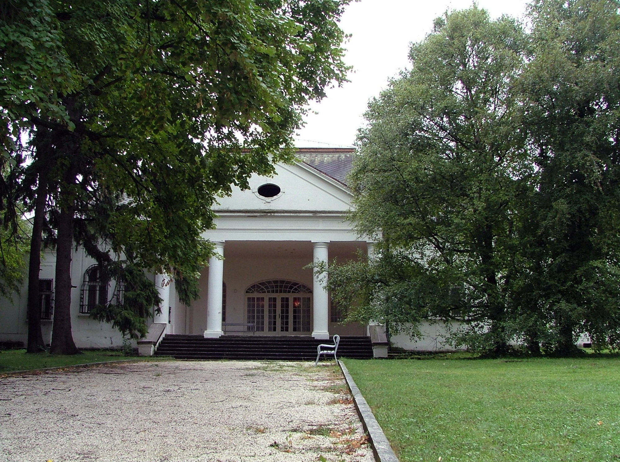 Један објекат у парку